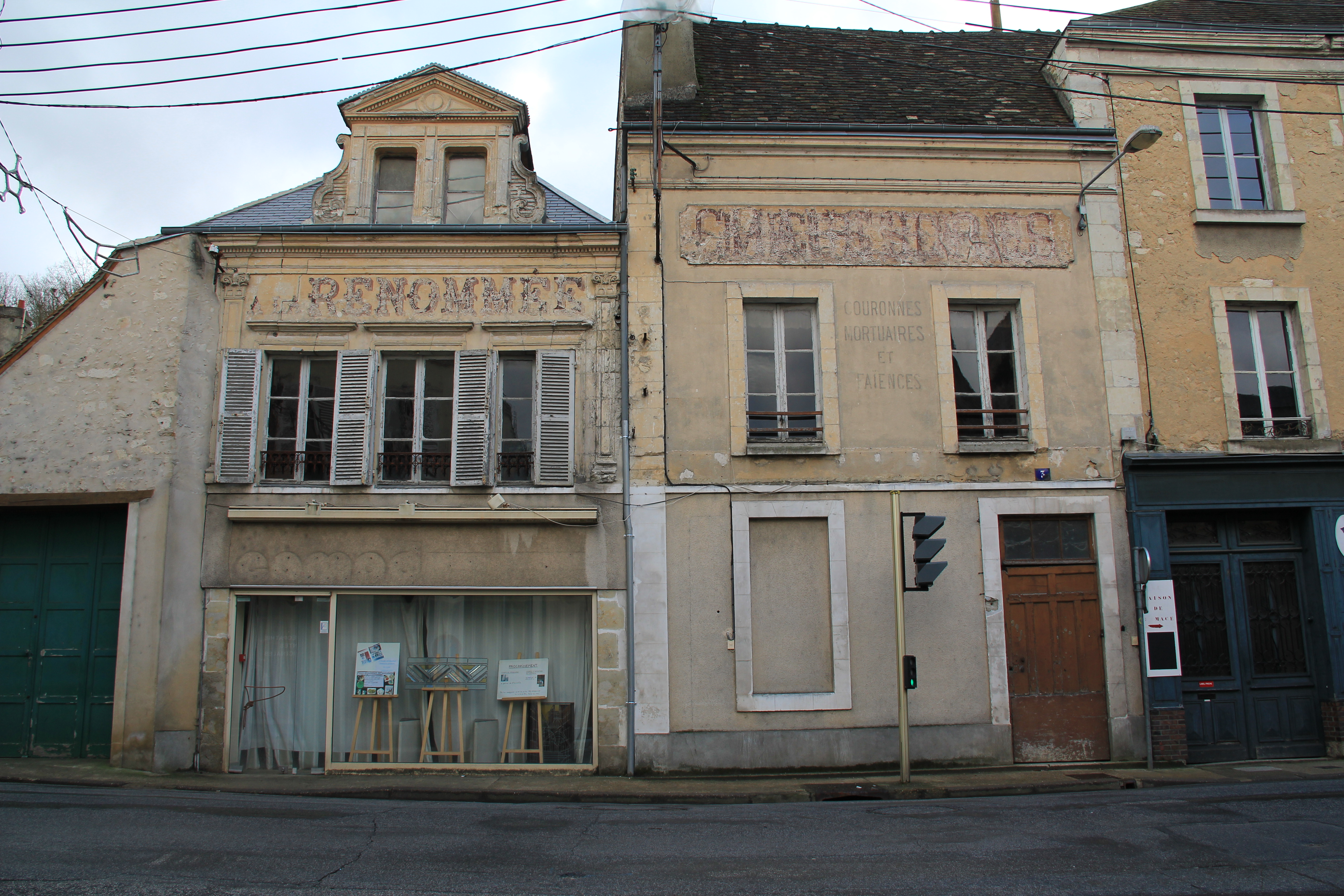 An old factory, 3 rue du Paty in Nogent-le-Rotrou, Eure-et-Loir, France.